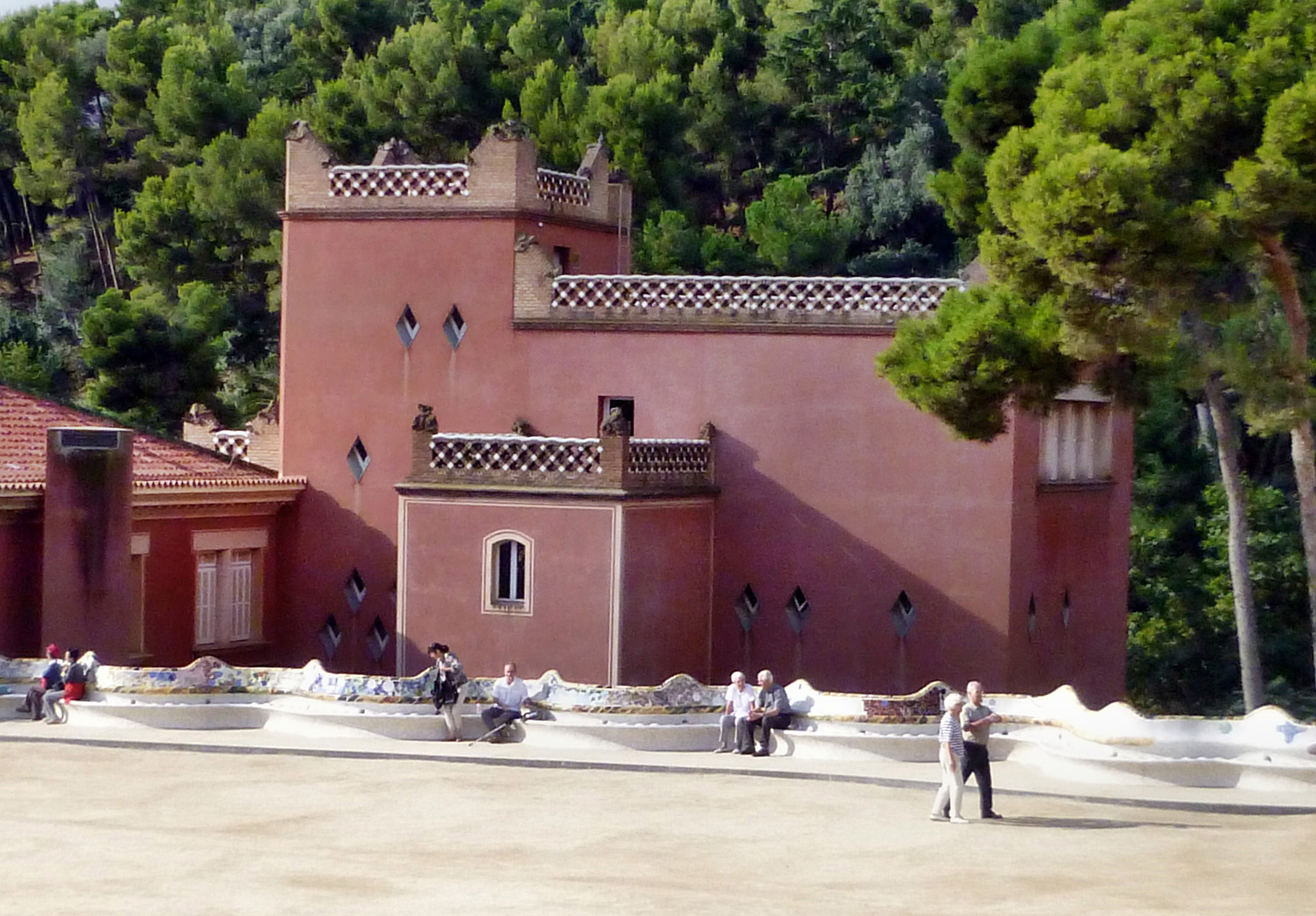 House next to the main square in the Parc Güell, Barcelona, Spain